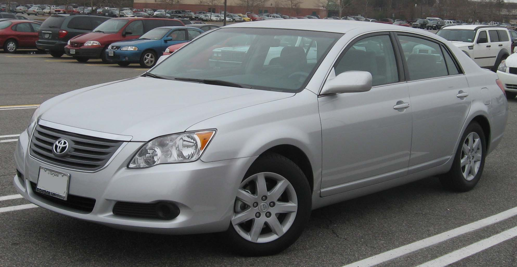 2008 Toyota Avalon photographed in Waldorf, Maryland, USA.